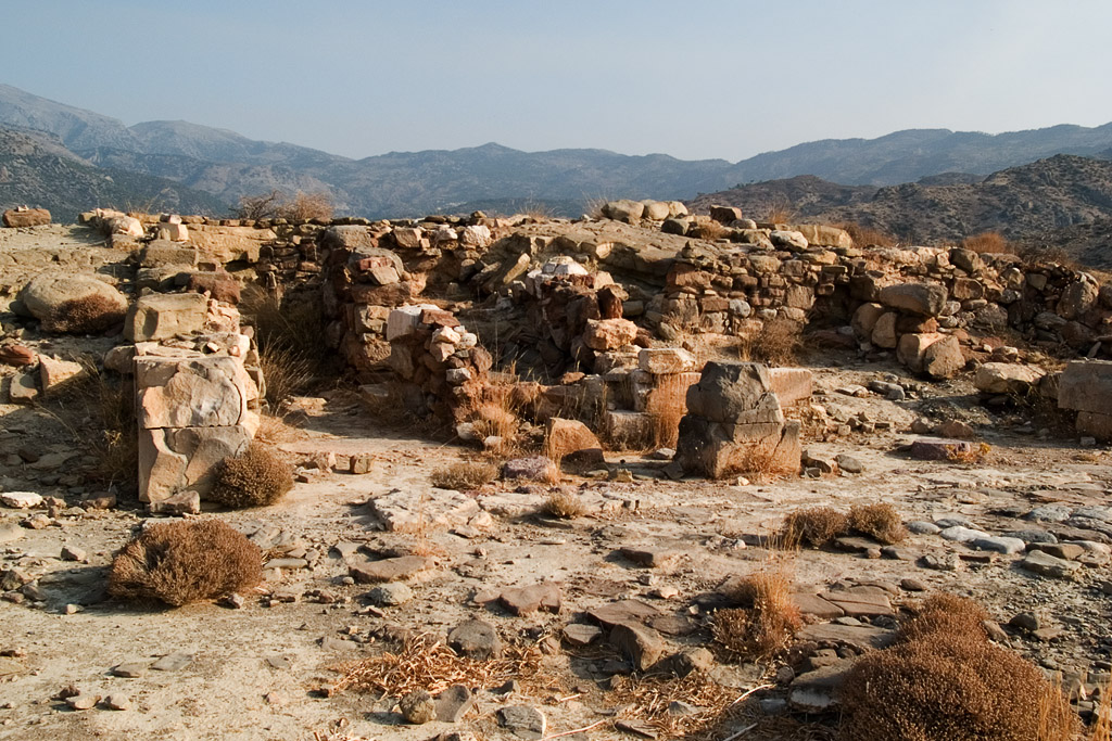 Pírgos, minoan settlement near Myrtos, Crete/Greece own photo, aug 22, 2006 photo: nomo/michael hoefner